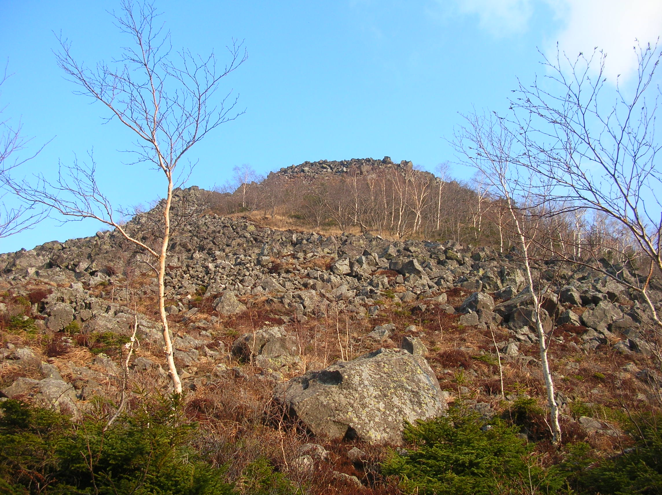 Mount Ganseki (Ganseki-yama) in Kamishihro, Hokkaido, Japan